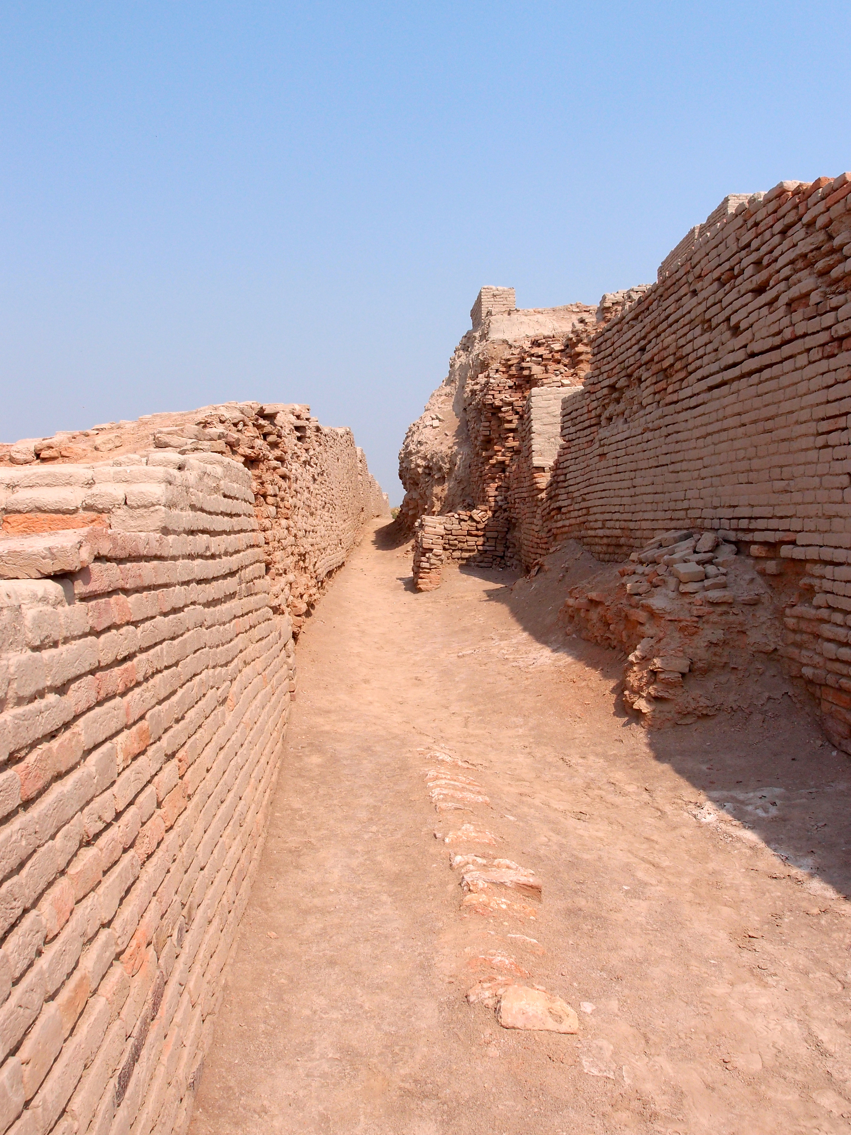 A street near stupa mound in Mohenjodaro